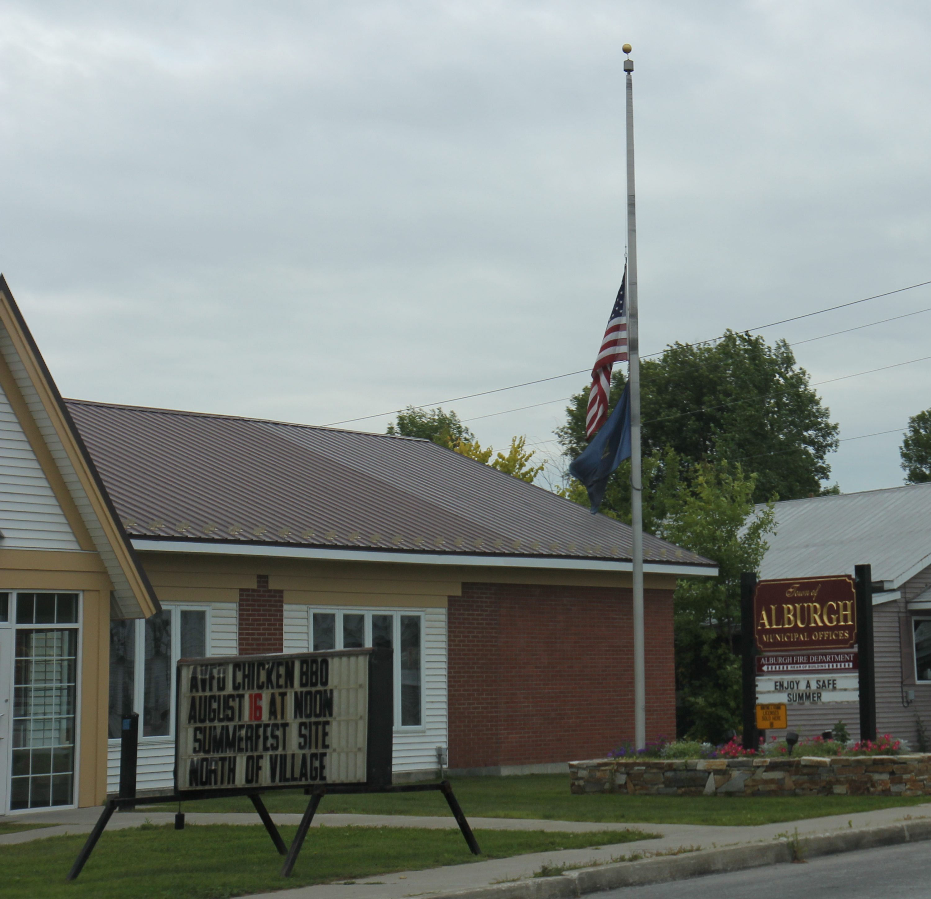 The village offices in Alburgh, Vermont